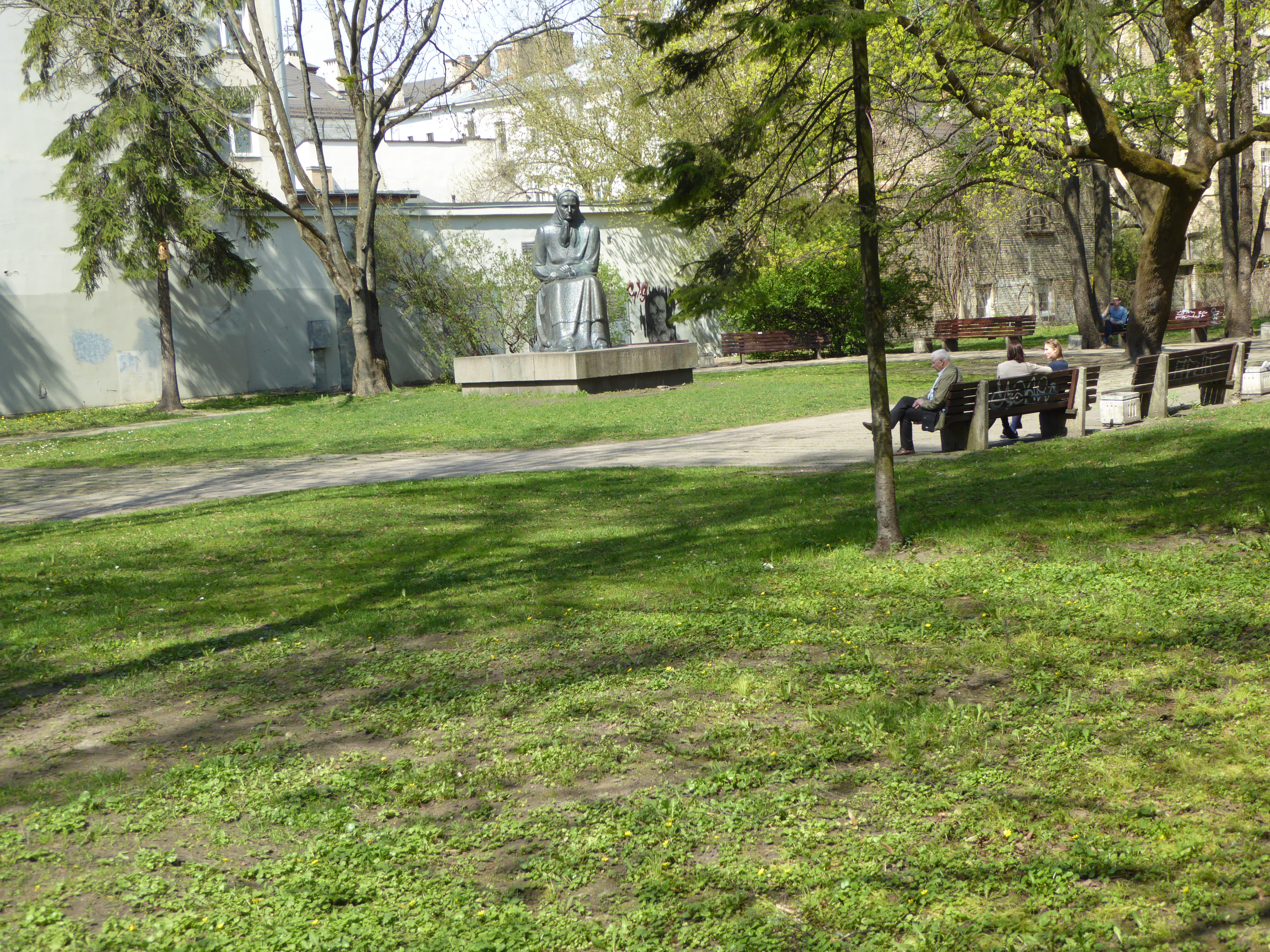 Žemaitė Square, Gediminas Avenue, Vilnius, Lithuania, April 2015